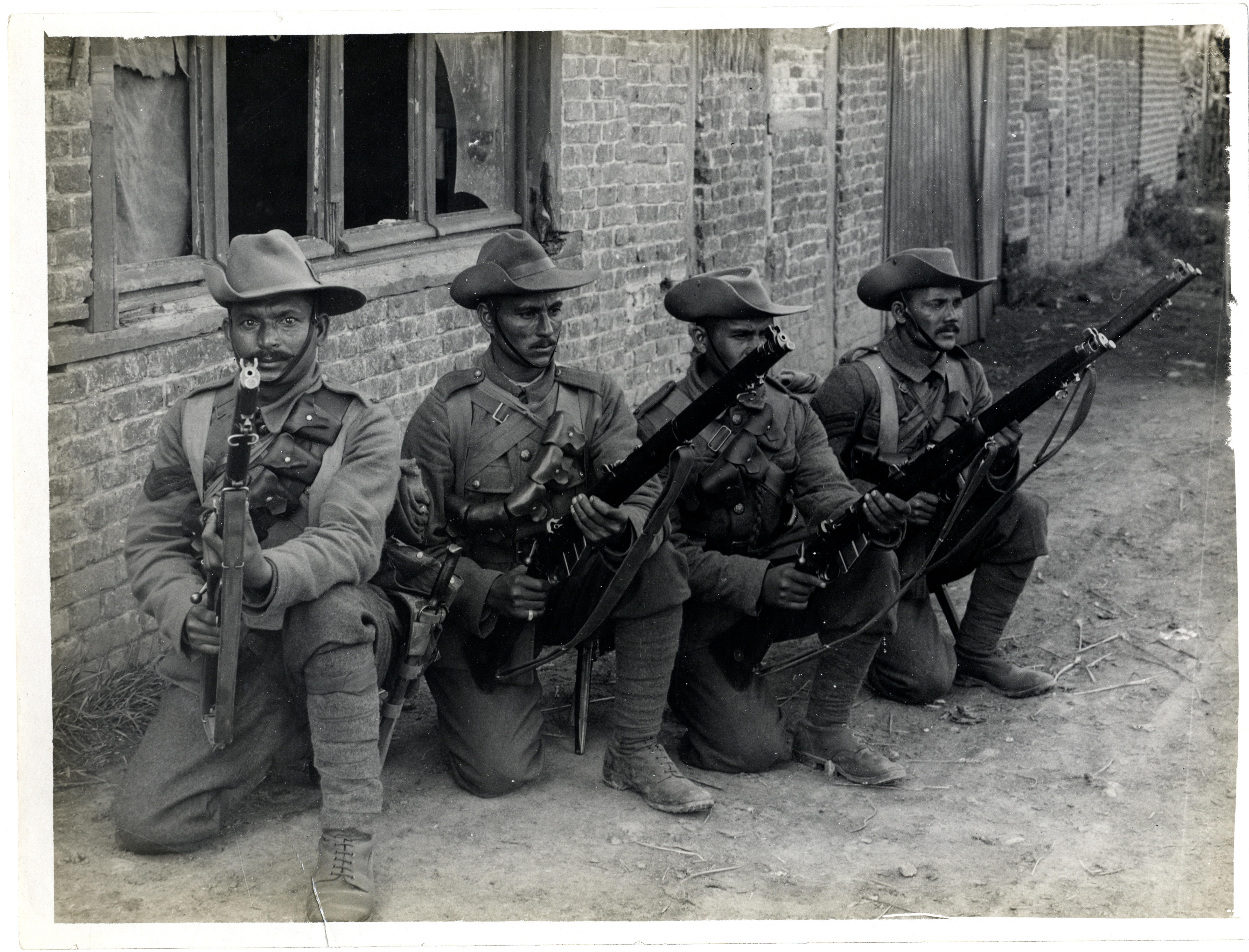 Reference: Photo 24/(243) From the Girdwood Collection held by the British Library. This image is part of the Europeana Collections 1914-1918 Date: 4 Aug 1915 See also: - View this at the British Library's site - Browse this collection on Europeana - and on Wikimedia Commons Please consider donating to the British Library.